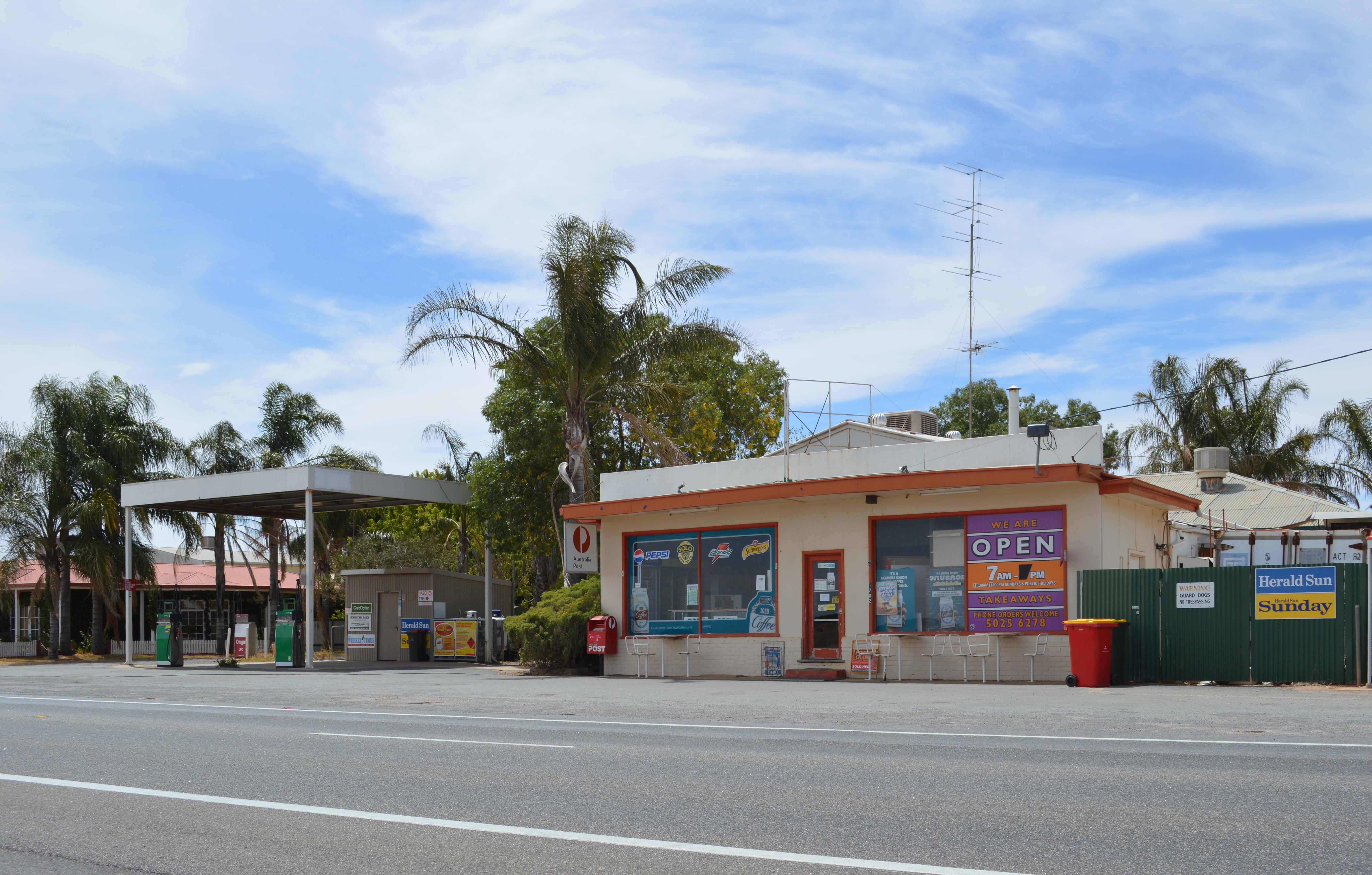 The general store and petrol station in Merbein South, Victoria